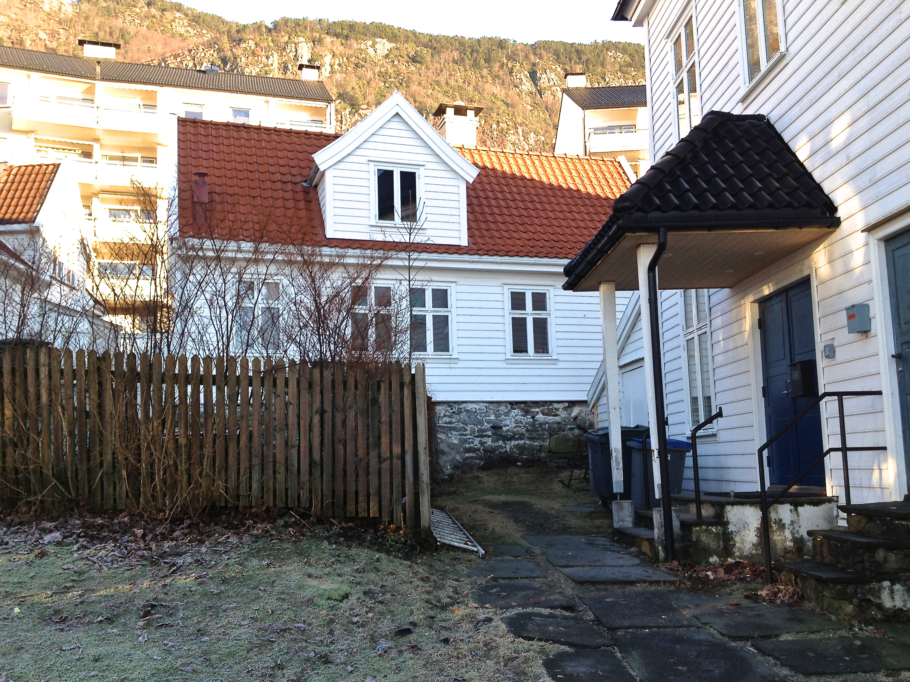 Barna bodde aller først i dette lille huset, som fantes på eiendommen da barnehjemmets styre kjøpte tomten.